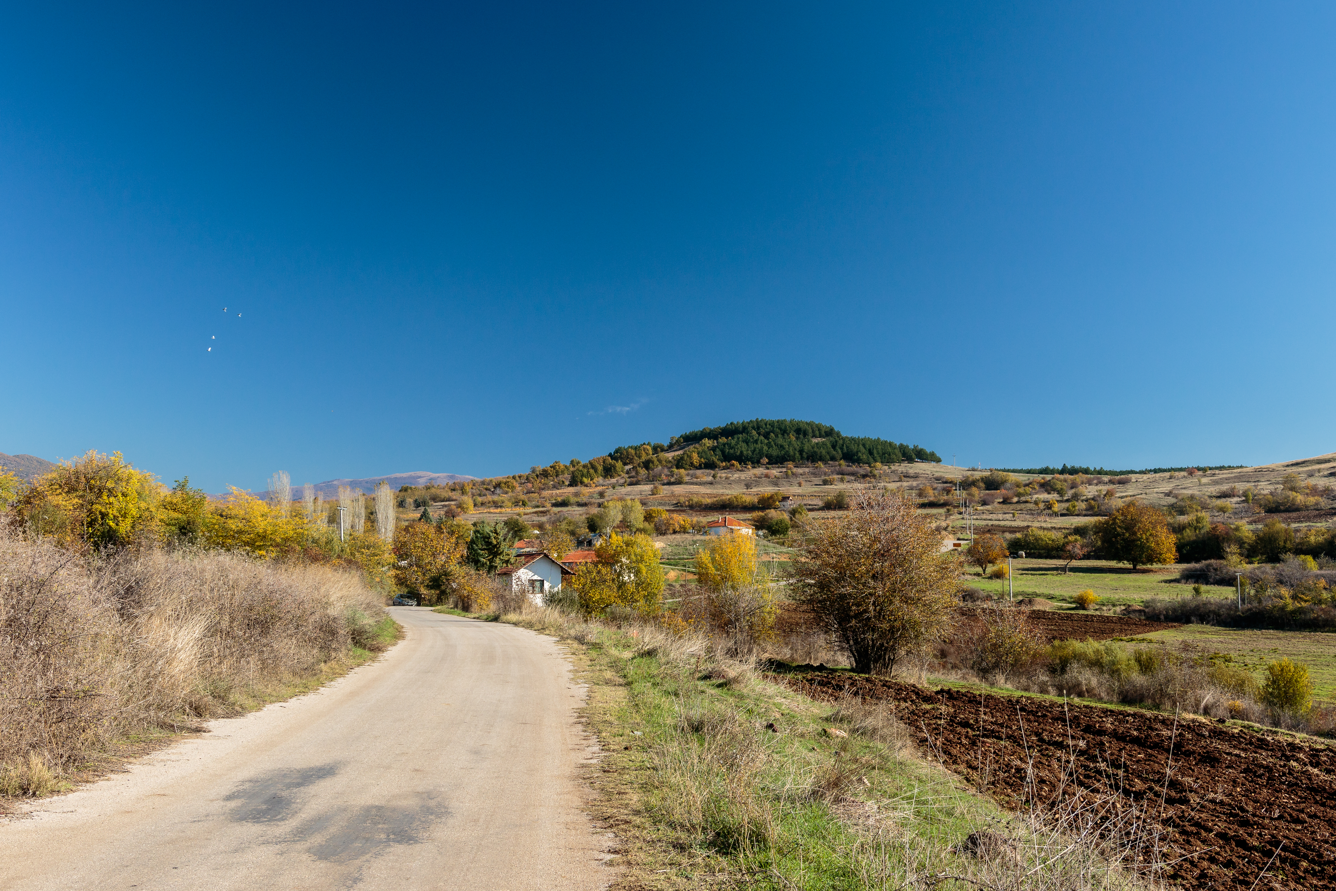 View of the village of Neokazi, Zletovo-Probištip Region, Macedonia